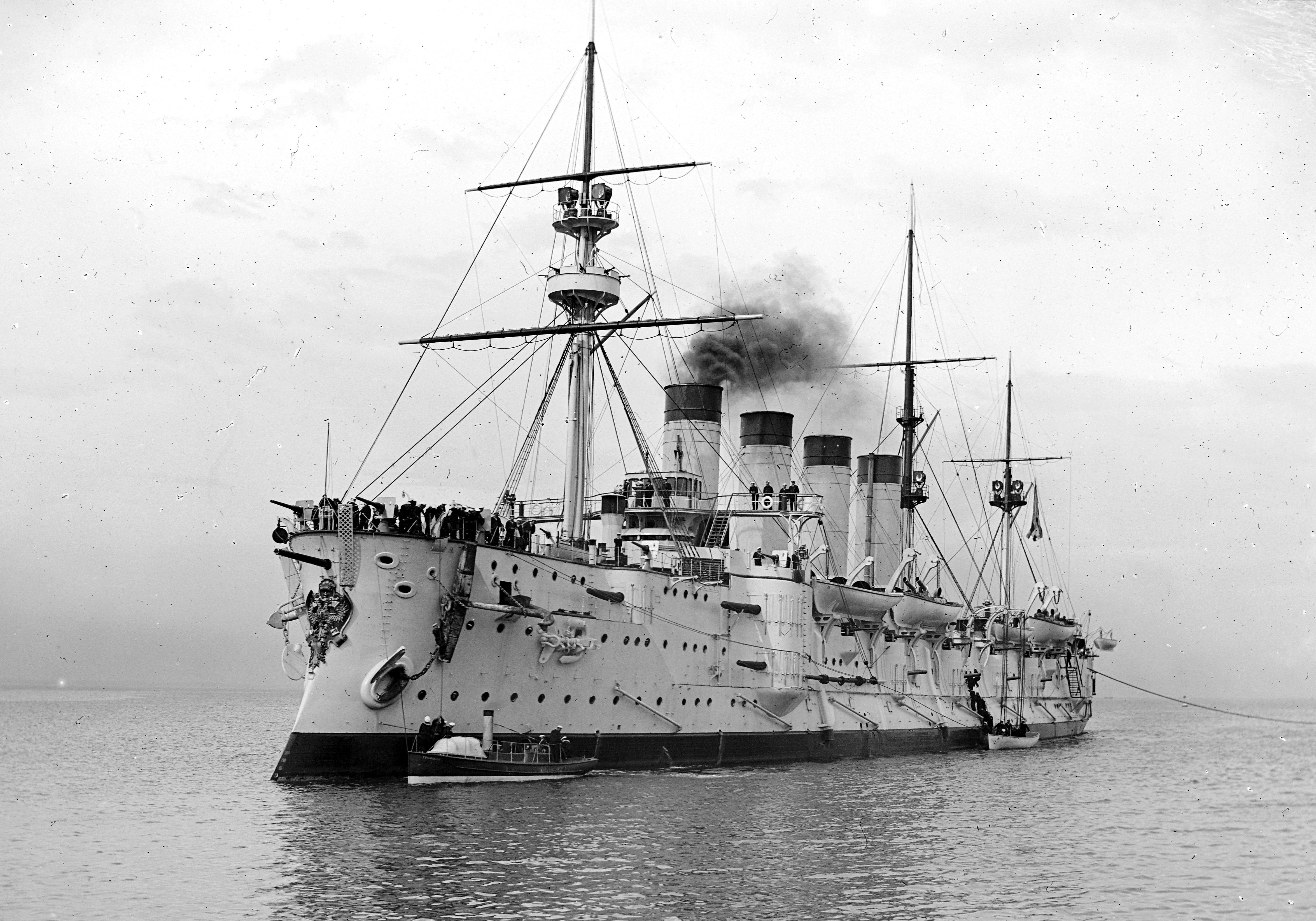 The Imperial Russian armoured cruiser Gromoboy.